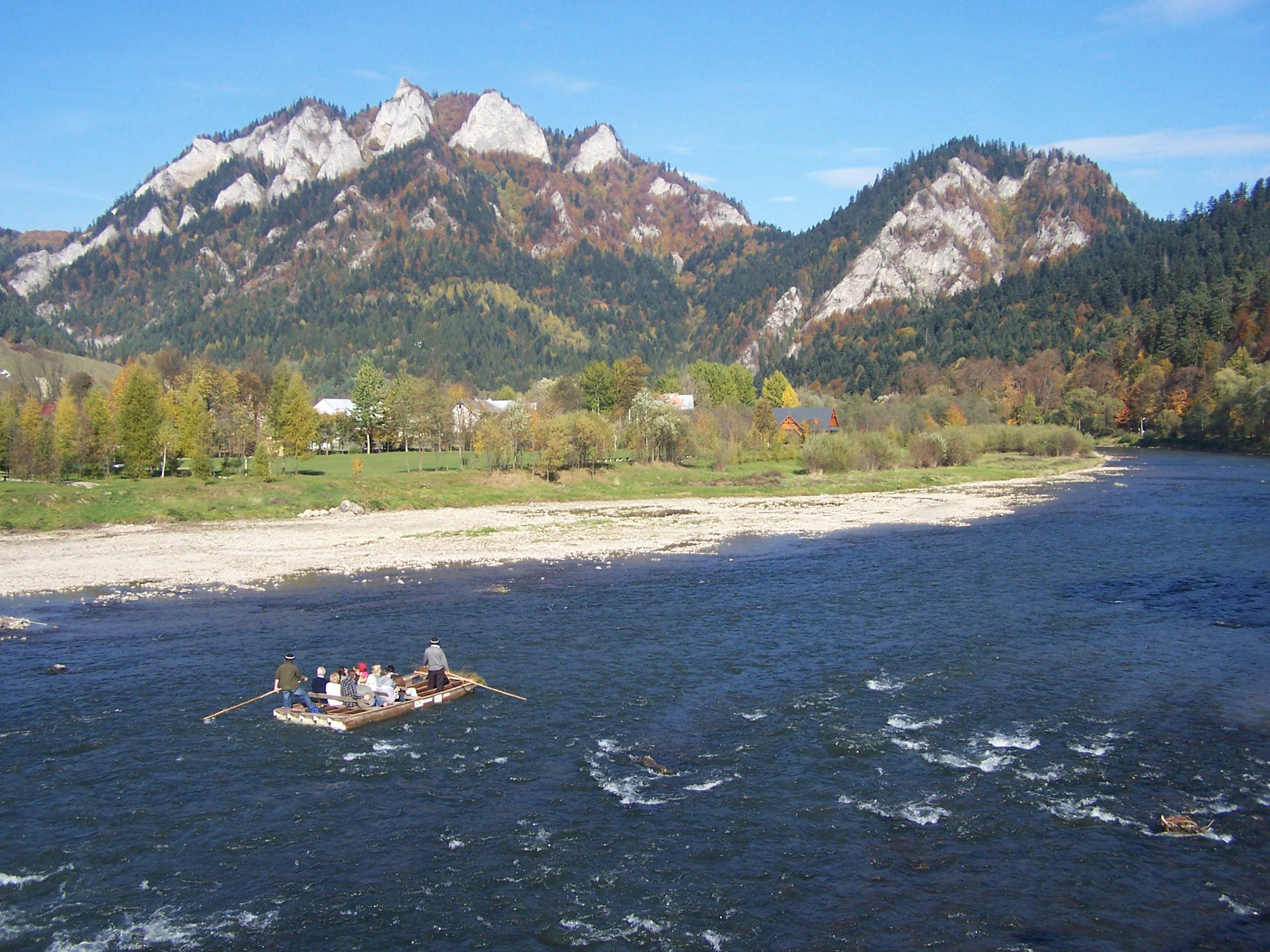 Trzy Korony, Facimiech, rafting on the Dunajec River (Pieniny)